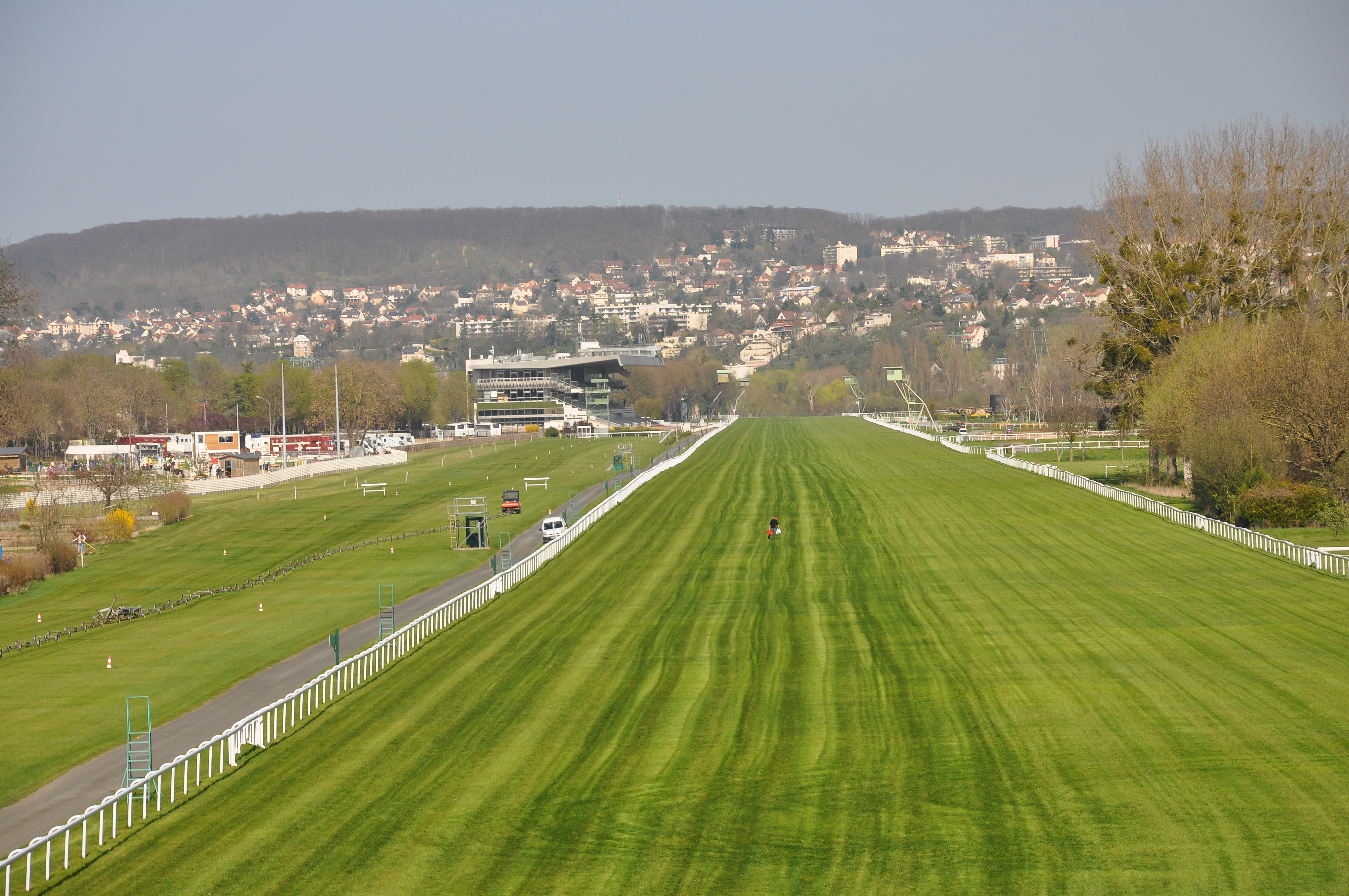 Racecourse of Maisons-Laffitte in Yvelines department, France. This racecourse was inaugurated in 1878, his straight line of 2300m is the longest in Europe.